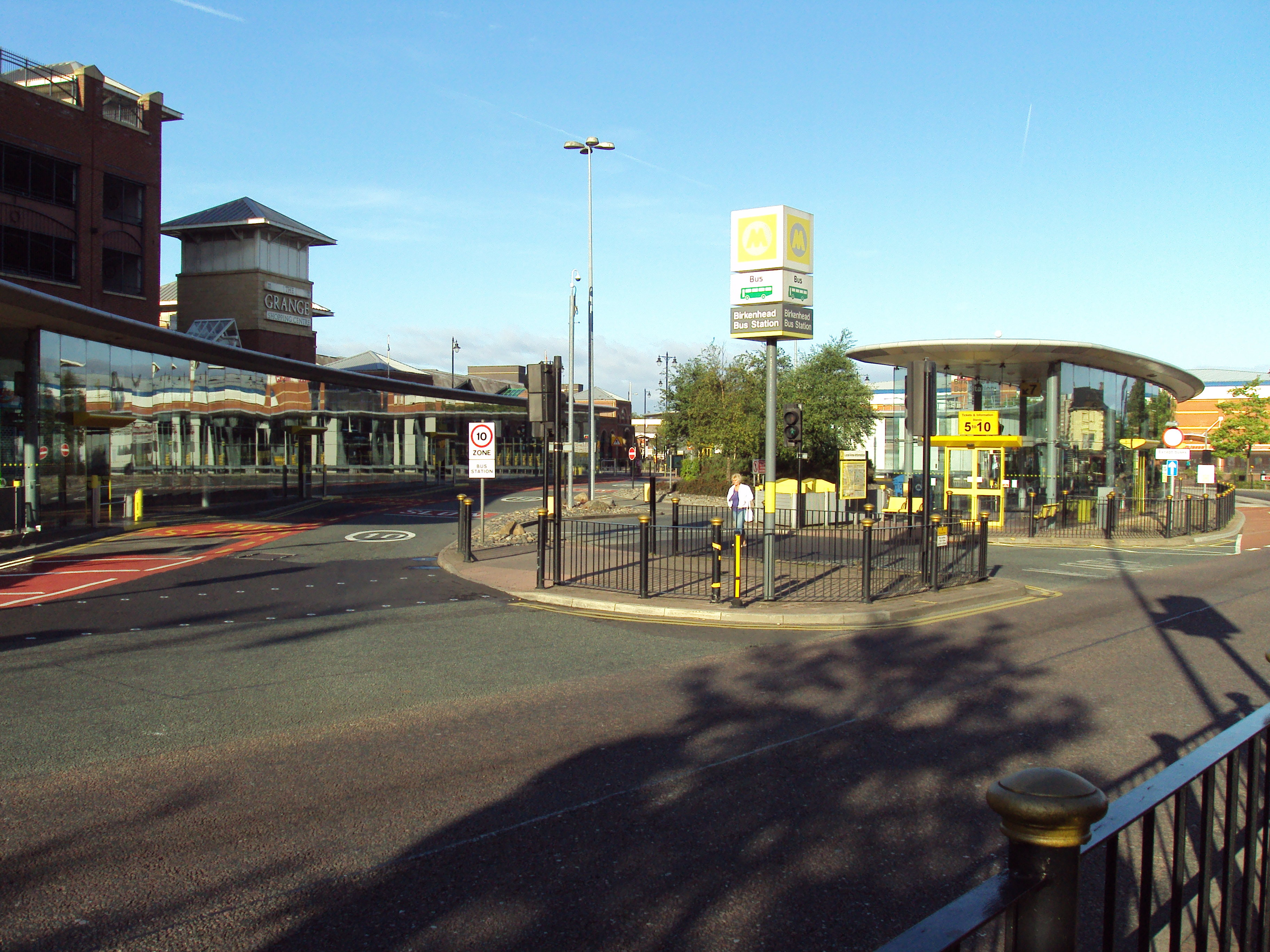 Birkenhead bus station, Merseyside, England.